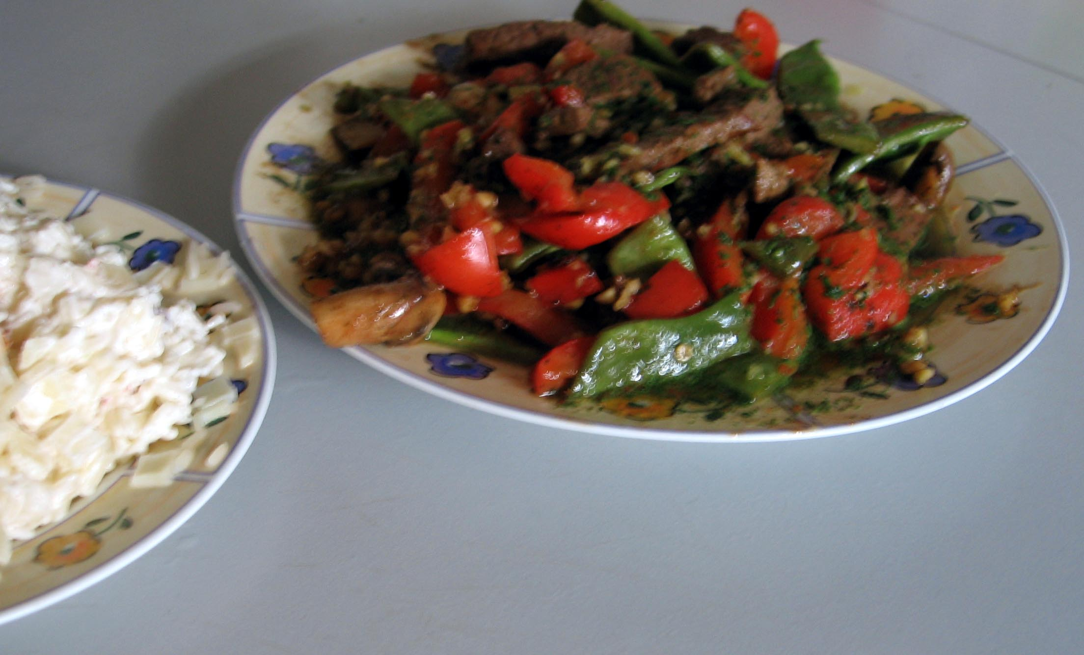 Beef Chimichurri